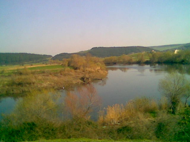 The place where Simav River and Nilüfer River meet.